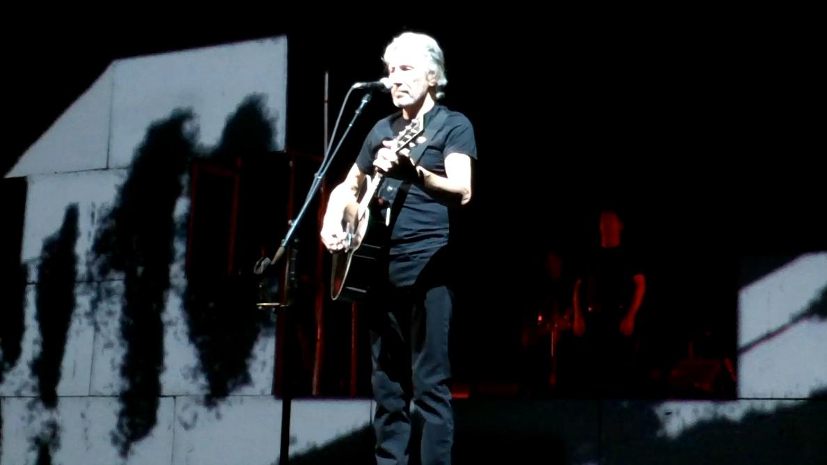 I took this photo from the 2nd row using a Kodak Playsport.